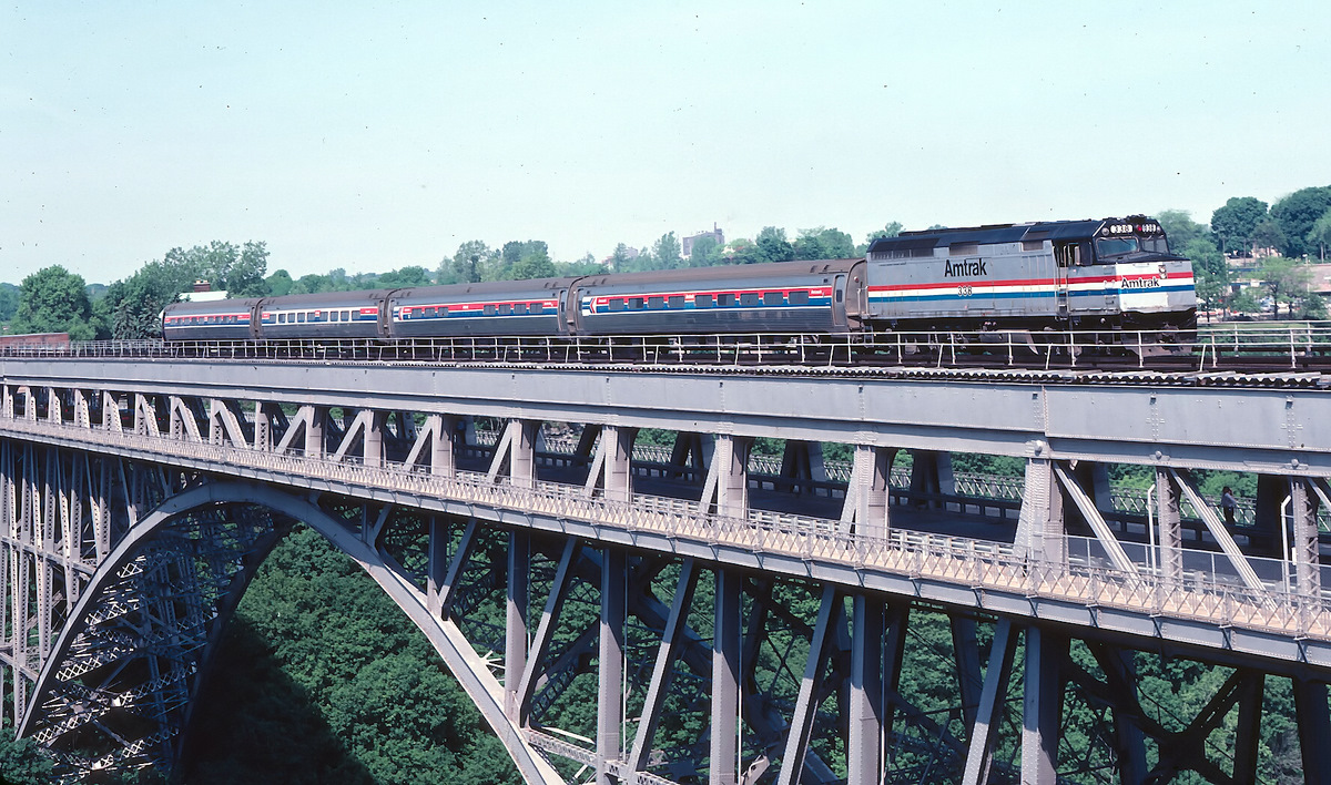 Amtrak #62, the Maple Leaf, crossing the Whirlpool Bridge over the Niagara River. Niagara Falls NY/Ontario June 1983. Scan from 35mm slide.